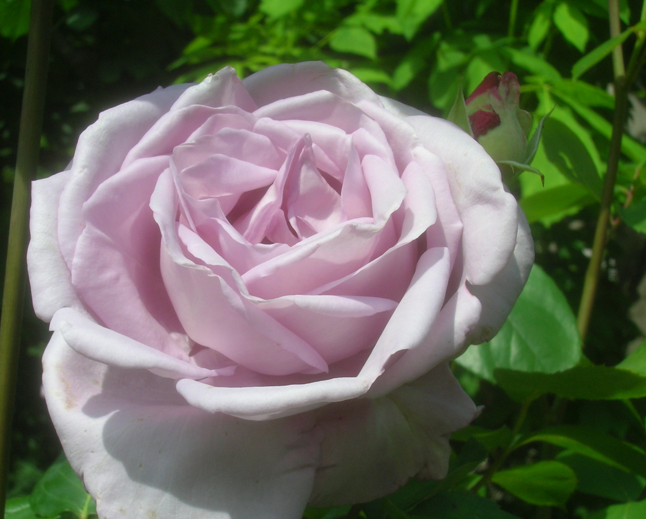 Rosa 'Mainzer Fastnacht' in the Volksgarten in Vienna.